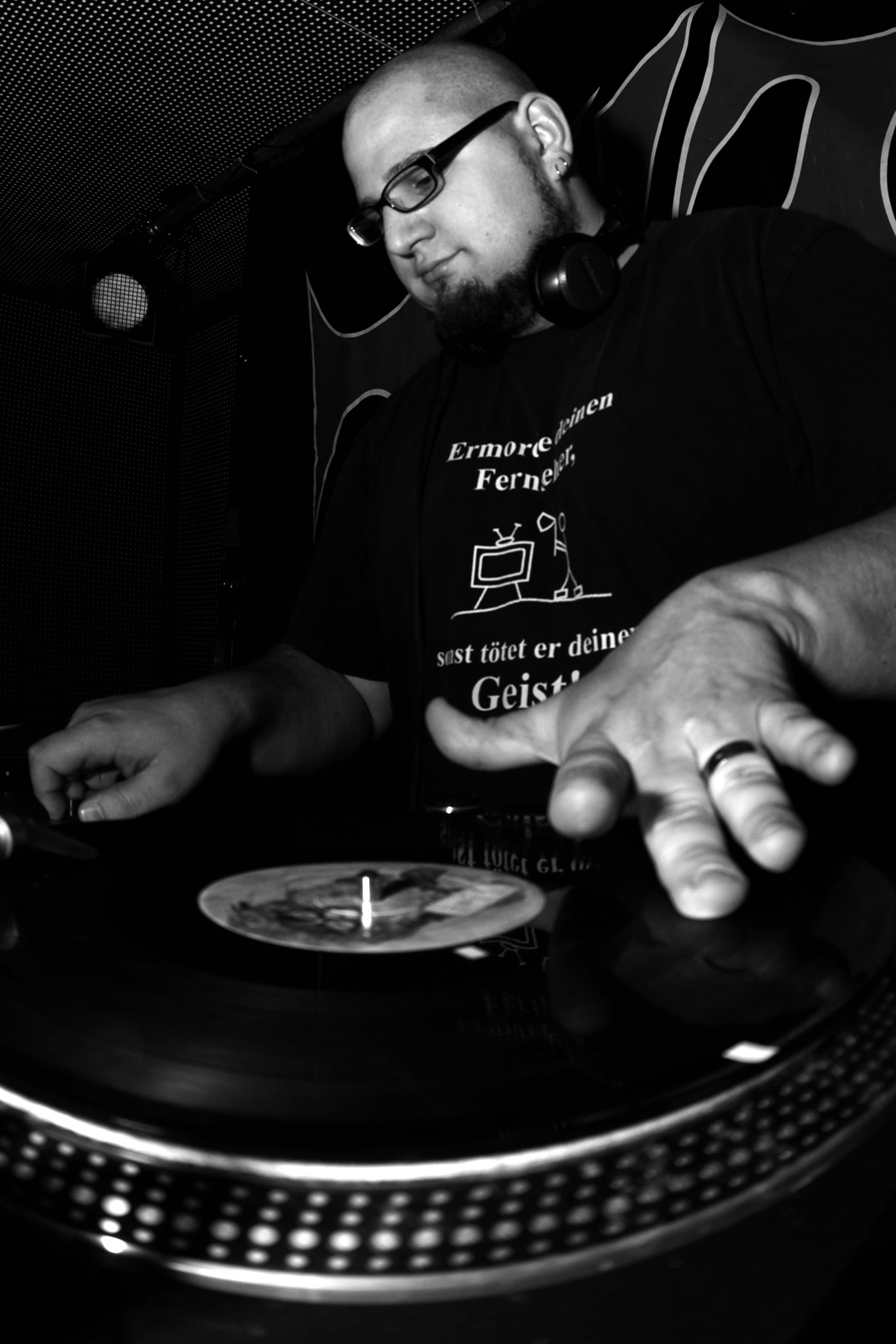 DJ Kermit